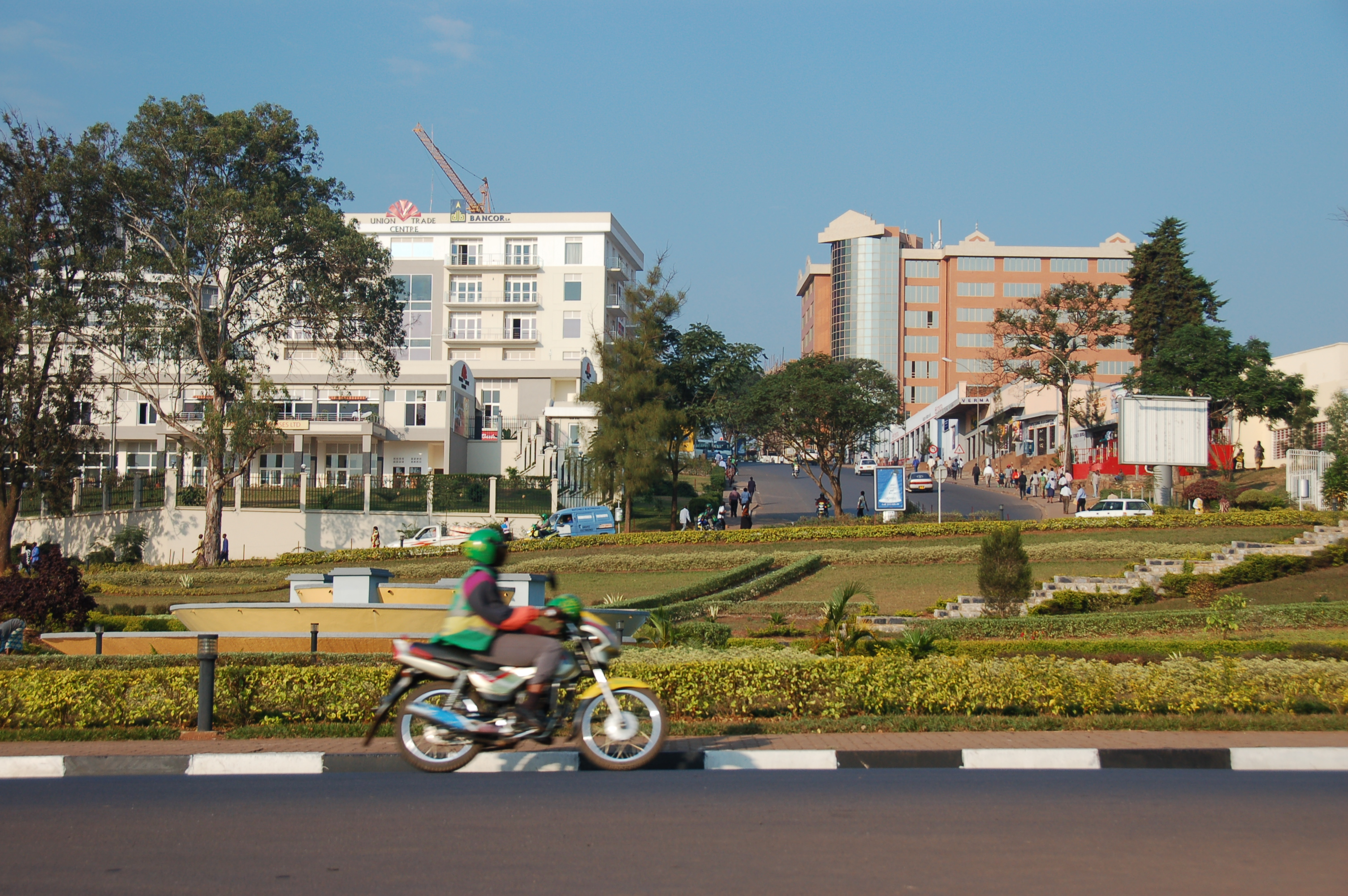 Kigali is the modern Capital city of Rwanda. It is very safe, clean and orderly. The Boda Boda riders insists on one passenger only and helmets must be worn.